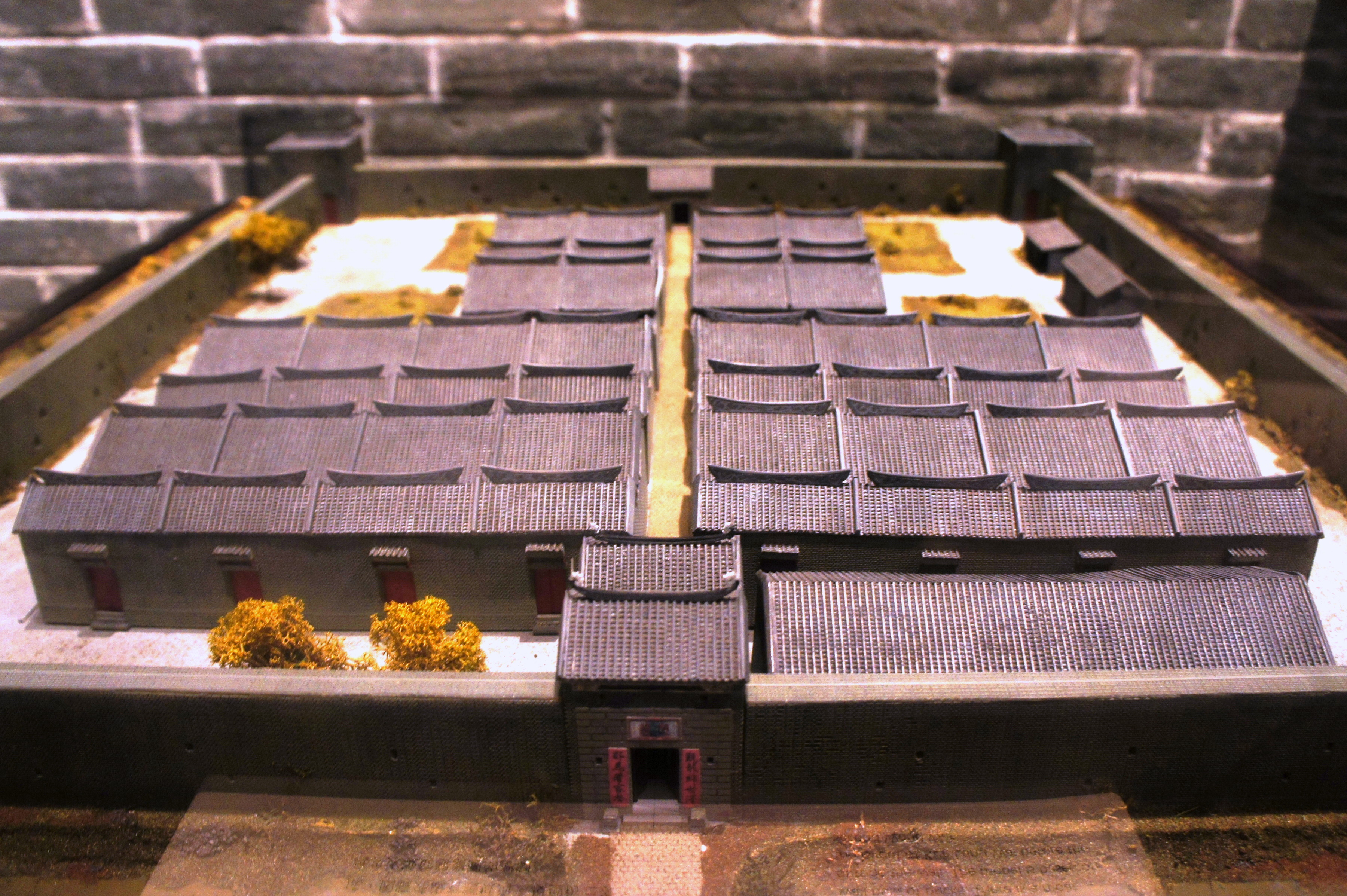 Model of Kun Lung Wai, Fanling, New Territories, Hong Kong. An 1:116 model. An exhibit of the Hong Kong Heritage Museum.